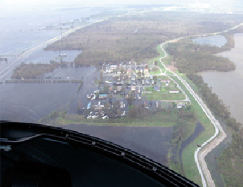 Ironton, Plaquemines Parish, Louisiana. Air view, flooded after Hurricane Katrina.